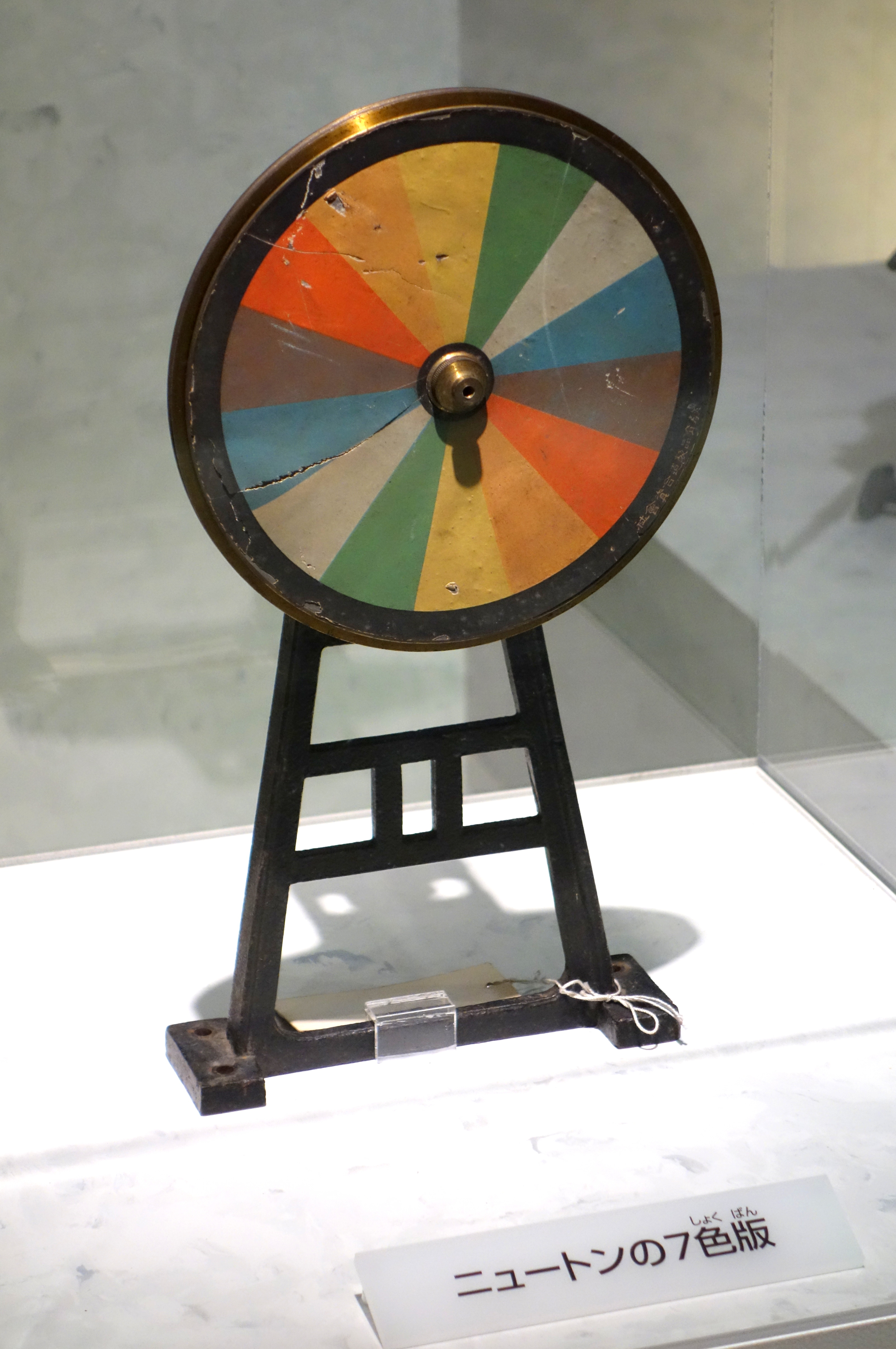 Exhibit in the National Museum of Nature and Science, Tokyo, Japan.